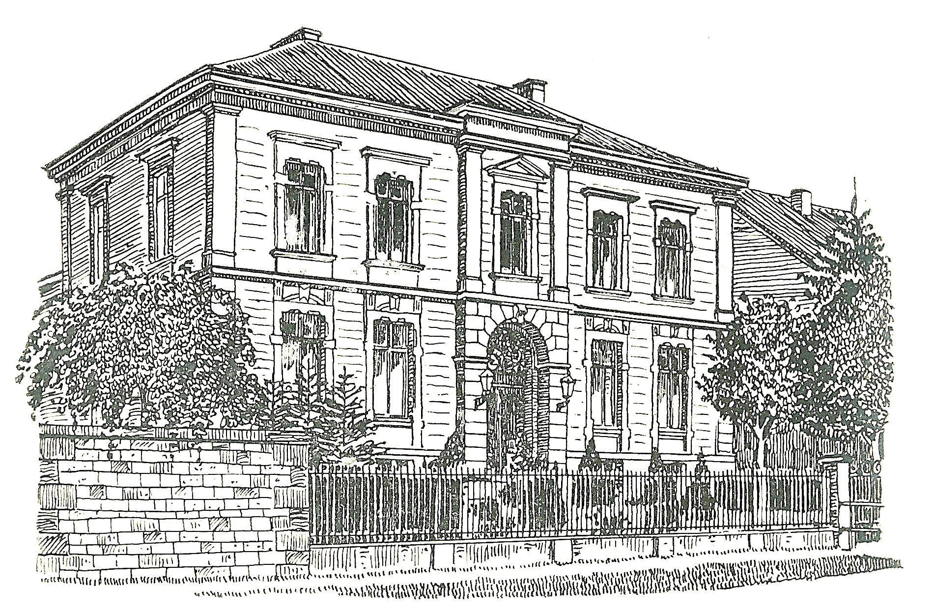 House of Corps Bremensia Göttingen, (Germany), Reinhäuser Landstrasse 23